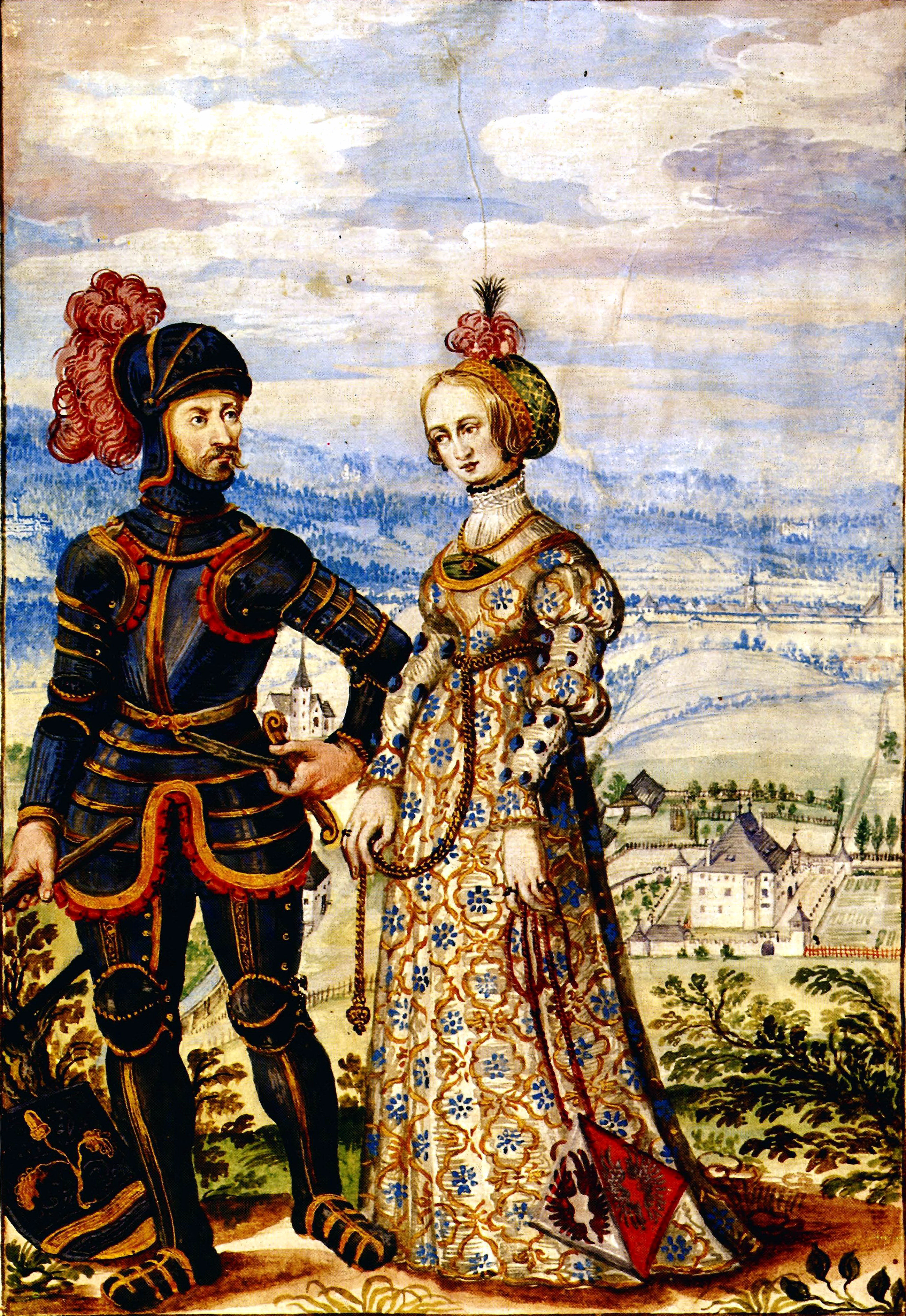 Chevalier Ulrich Khevenhüller (about 1430-1492) and Lady Anna, born von Kellerberg. Featuring the castle of Moertenegg and the church Saint Martin near Villach, in the background Villach / Carinthia / Austria / European Union. In the distance the castles Wernberg, Sternberg, Aichelberg and Landskron (from right to left).